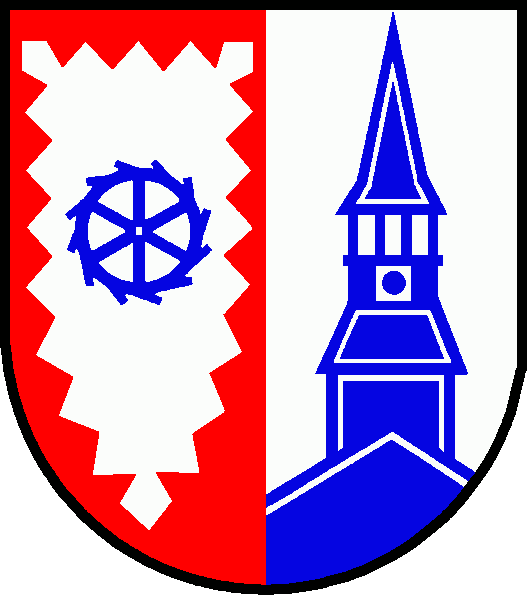 Coat of arms of the municipality Schenefeld in Schleswig-Holstein, Germany.